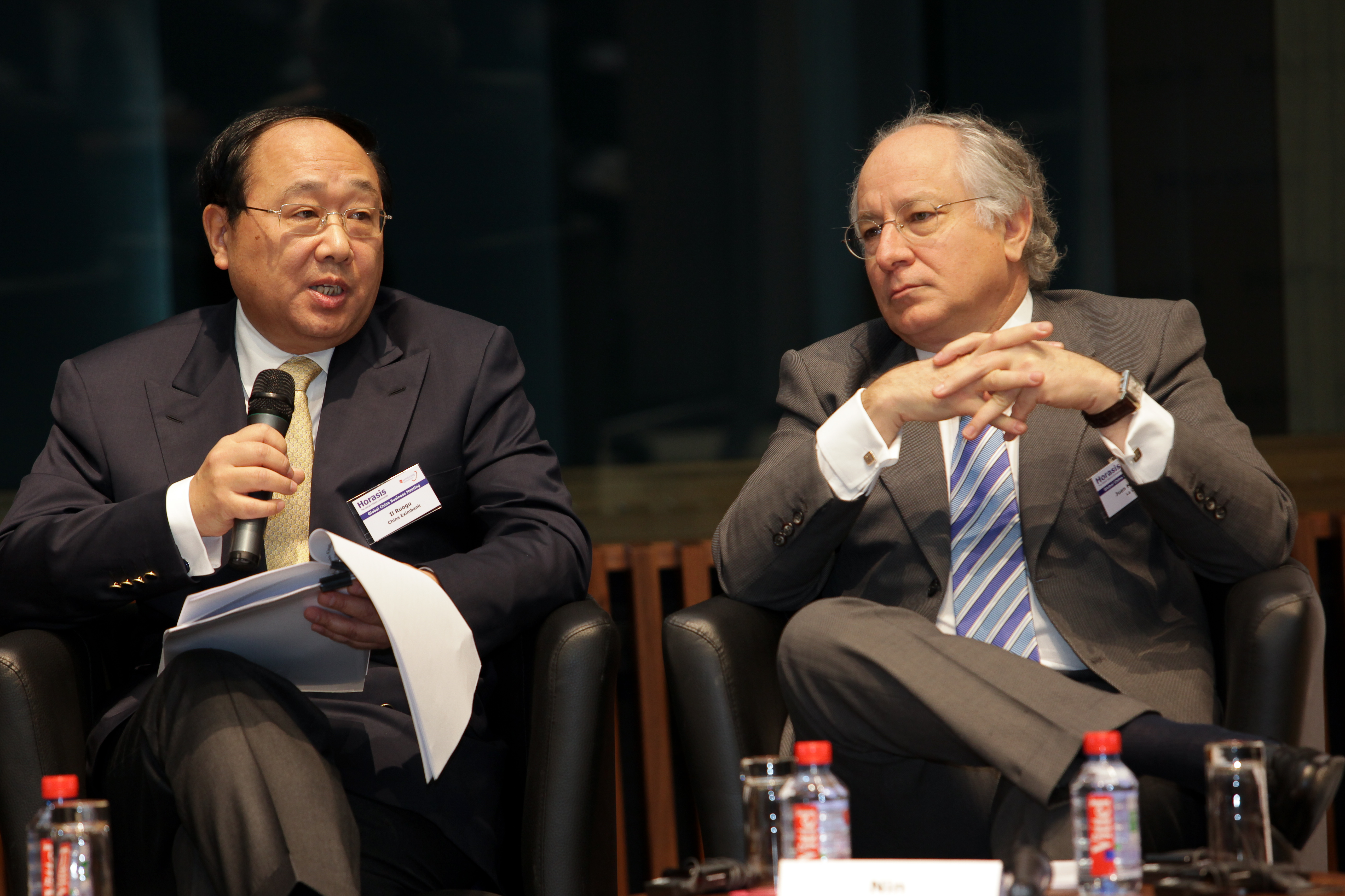 Li Ruogu, Chairman, China Eximbank; Joan María Nin, President and Chief Executive Officer, La Caixa, Spain, at the 2010 Horasis Global China Business Meeting, in Luxembourg